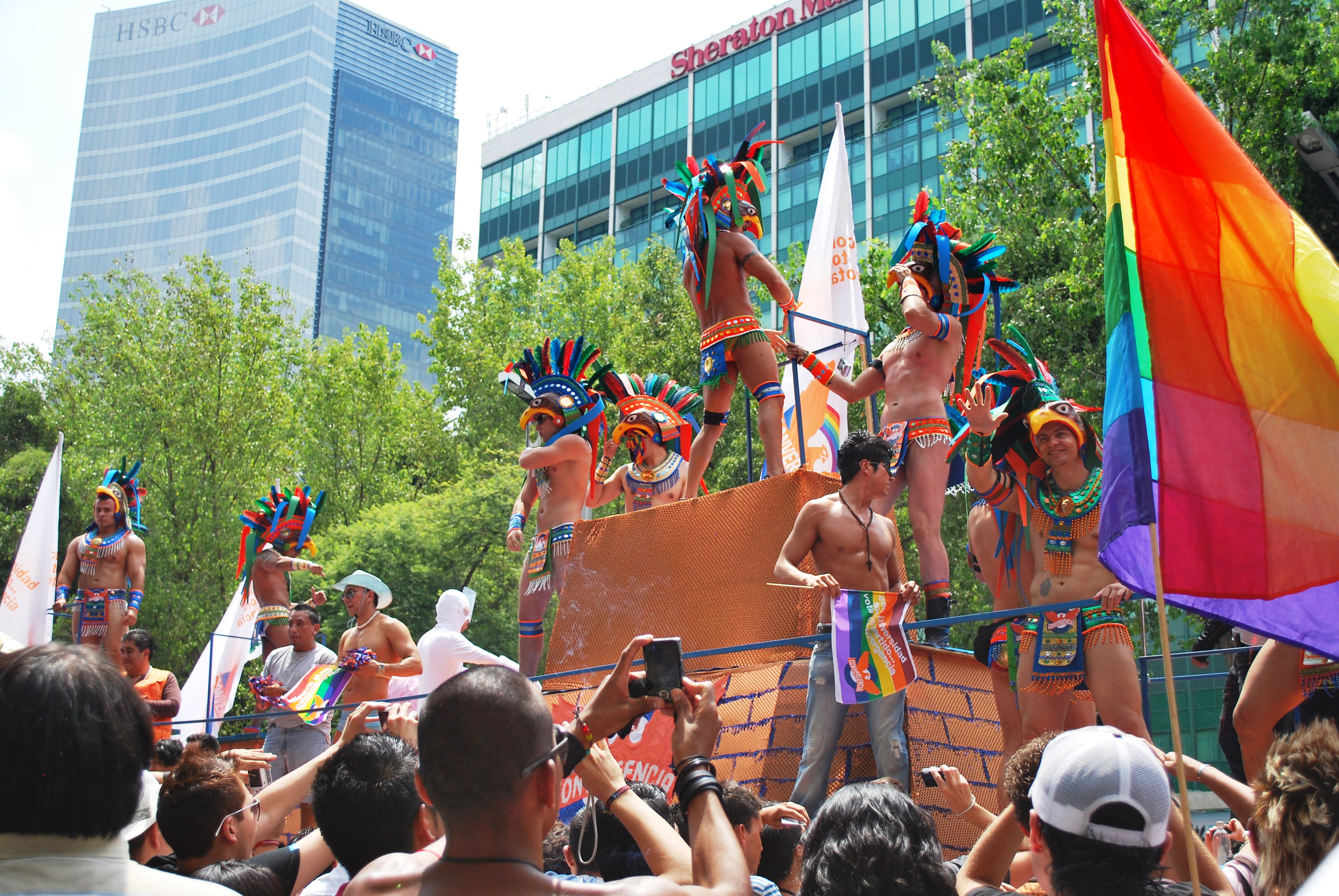 Float with Aztec Eagle Warrior theme at the 2009 Marcha Gay in Mexico City